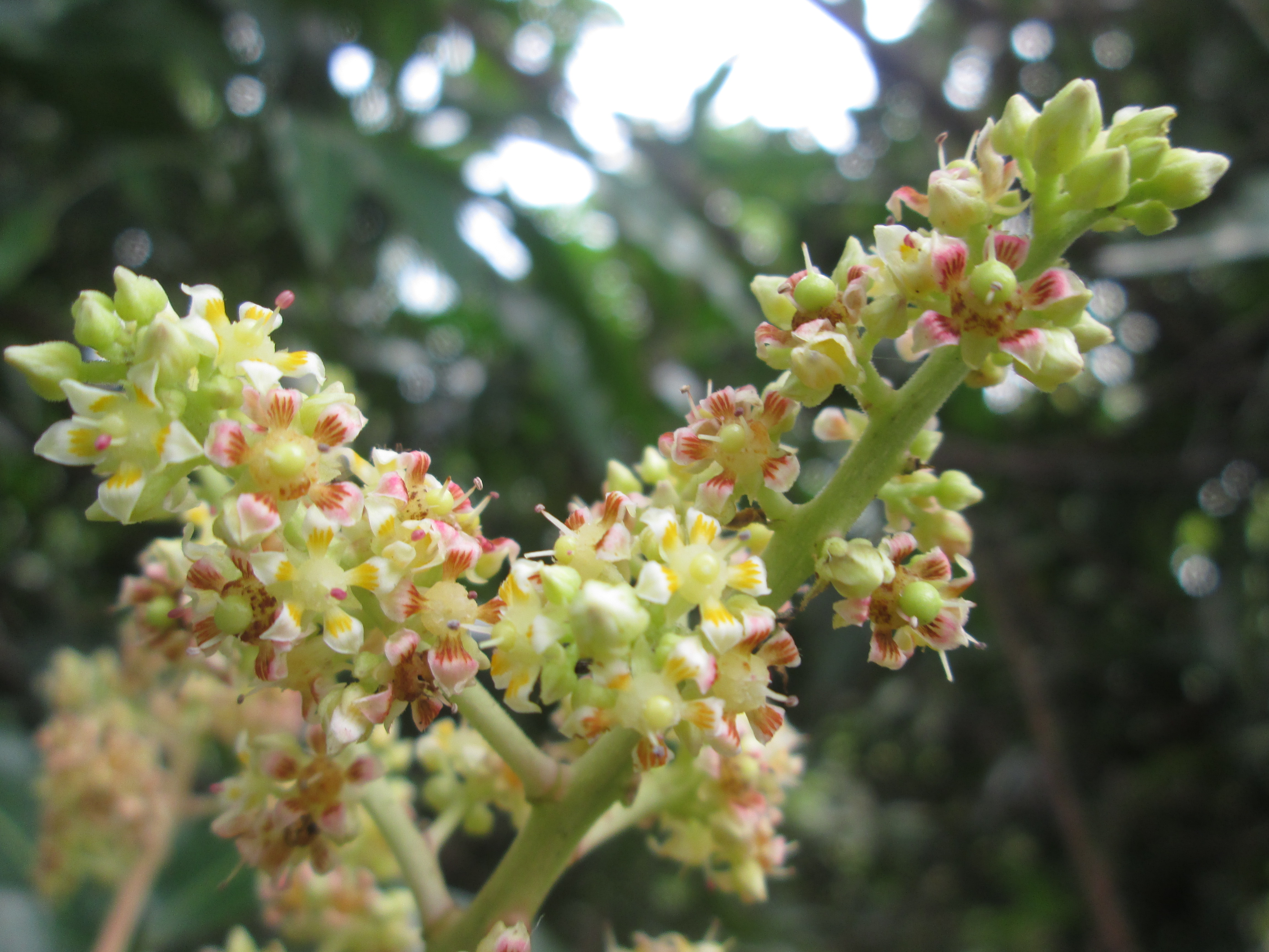 Everything is beautiful in nature